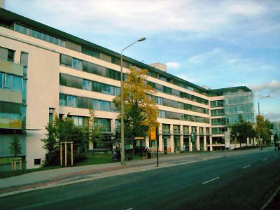 BZW, Dresden University of Technology